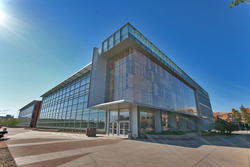 Biodesign buildings at Arizona State University. Photo by Nick Schweitzer.